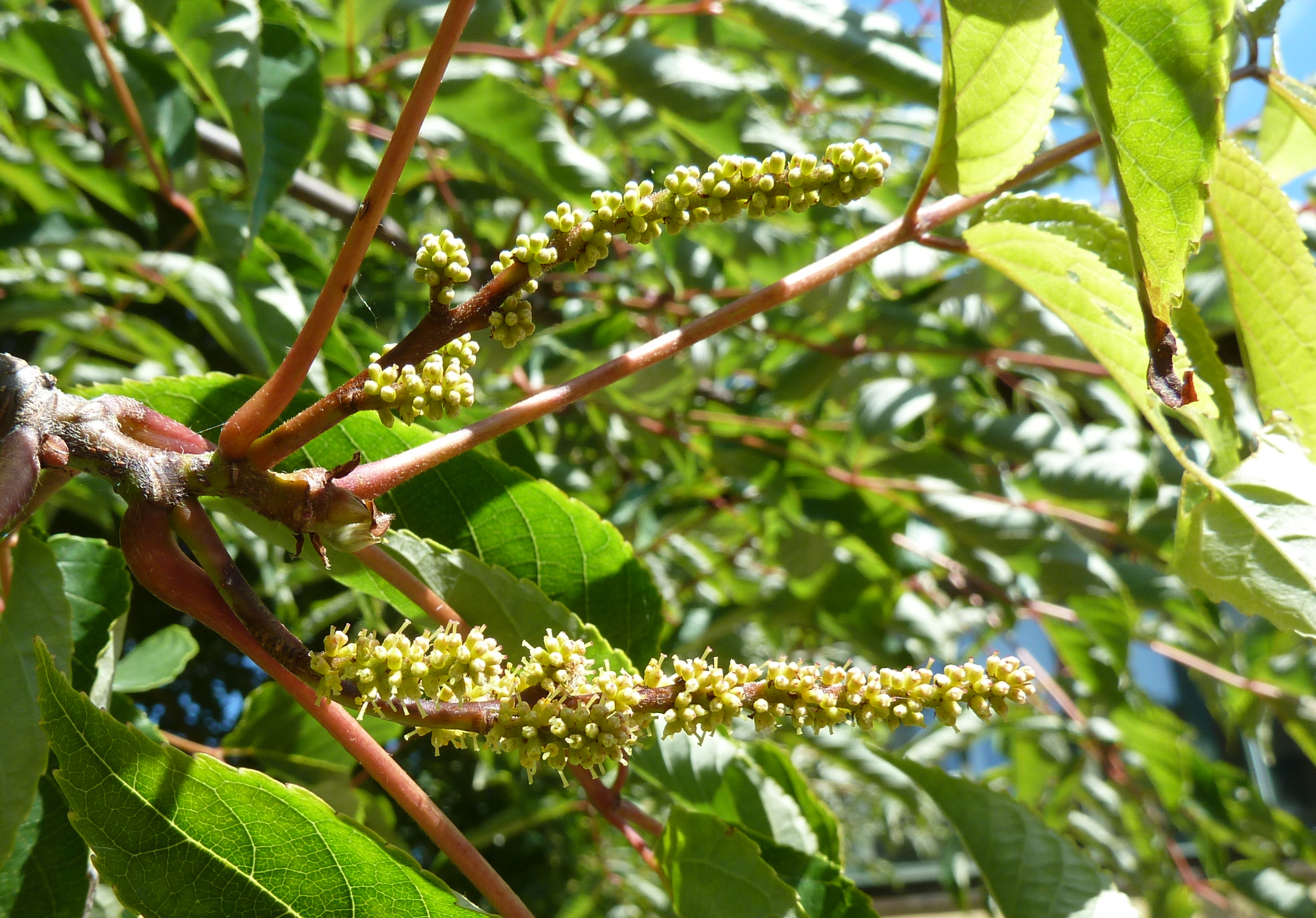 Flowering branch of Tapiscia chinensis, UBC Botanical Garden